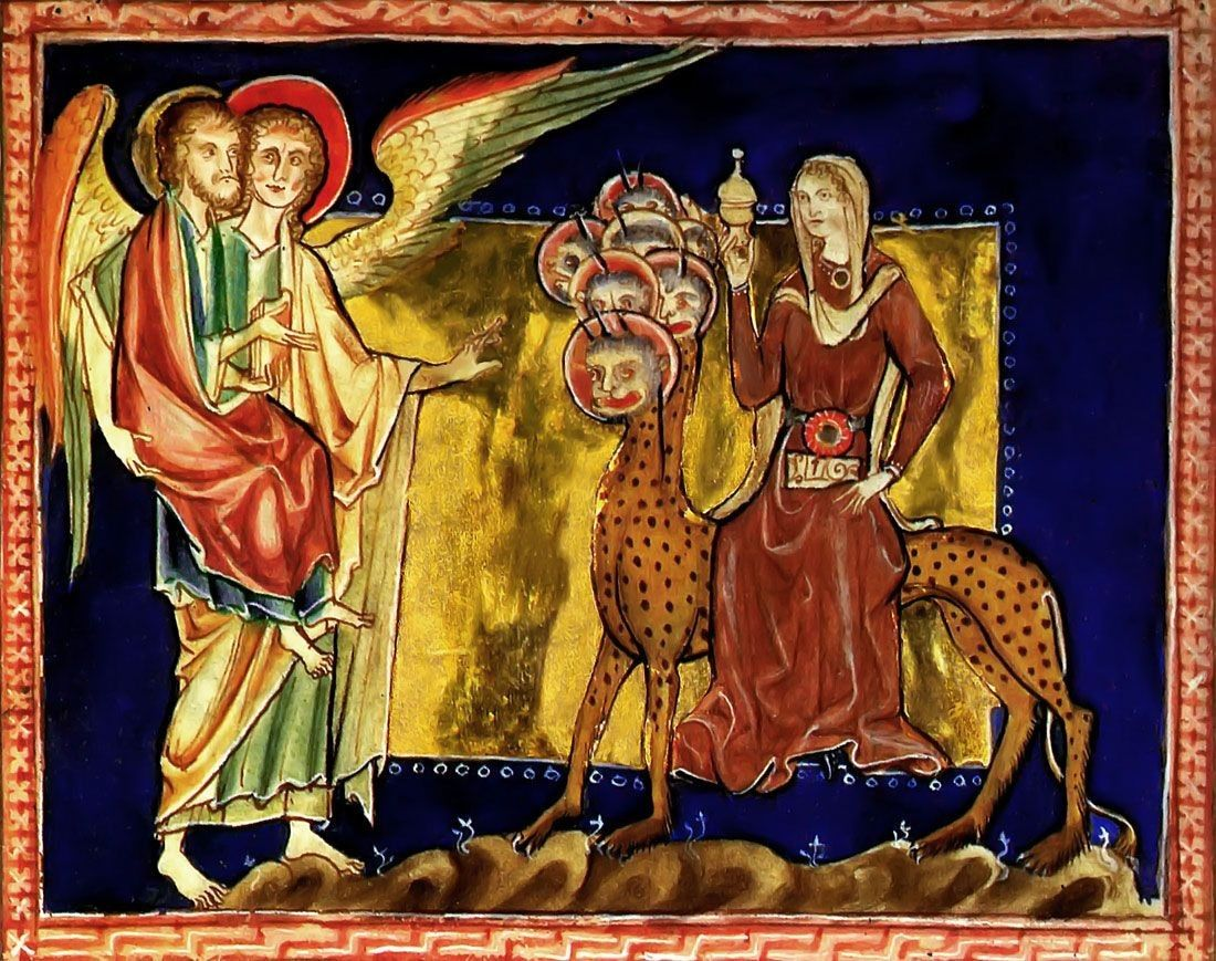 Ms 209 f.30 The Woman on the Beast: angel shows St. John's vision of the great Harlot seated on a seven-headed monster, from the Lambeth Apocalypse, c.1260 (vellum) [1]